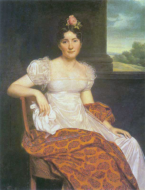 Portrait of Josephina-Fridrix